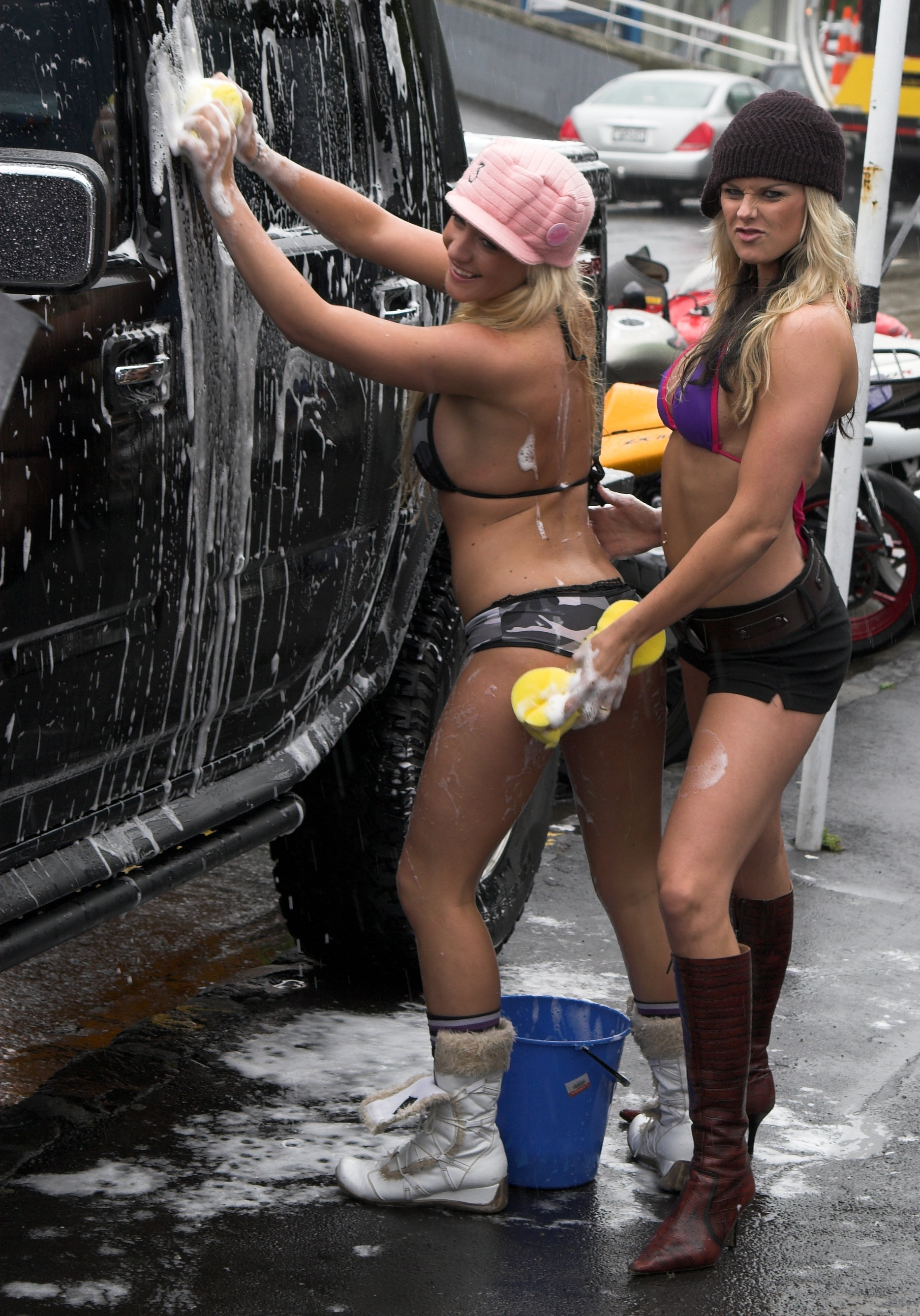 Bikini Bikewash fundraiser November 18, 2006, all proceeds went to the Auckland Hospital Spinal Unit.